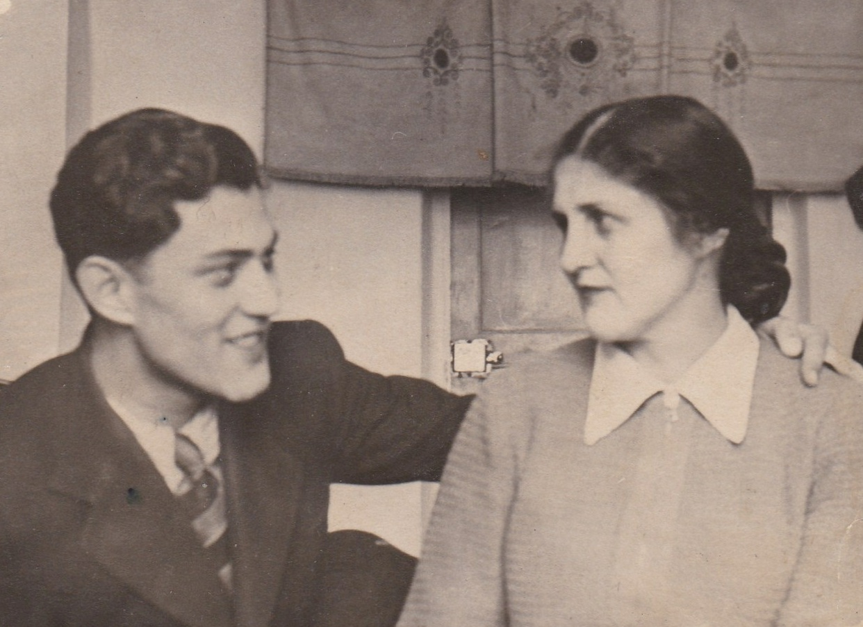 Tashmukhamedov F. with his mother Tashmukhamedova O. Тоҷикӣ: Тошмухаммадов Ф.М. ва модар Тошмухаммадова О.